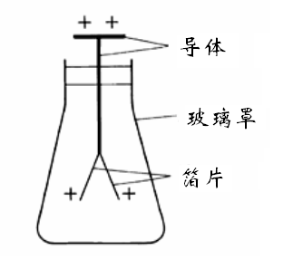 Schematic of an electroscope